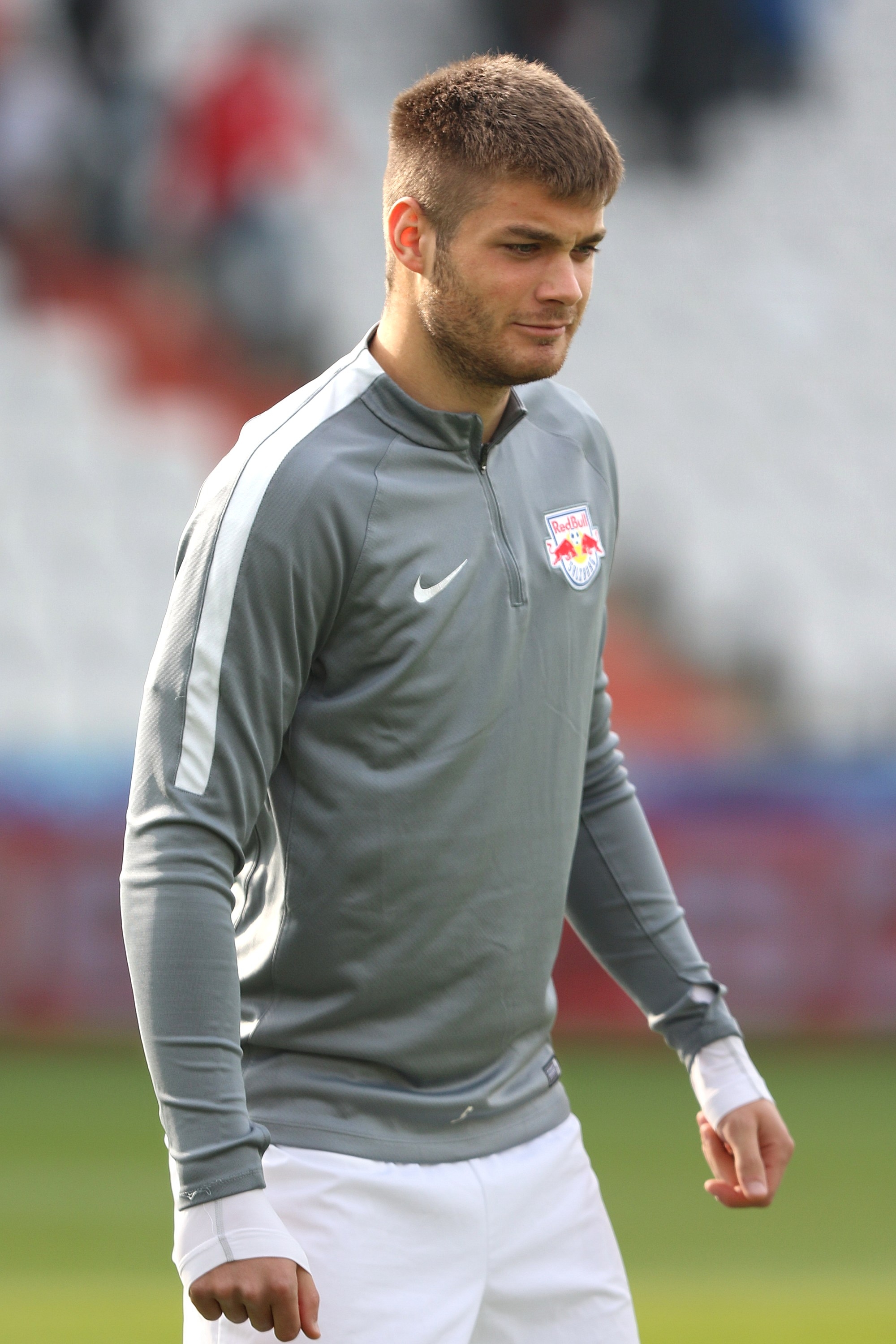 2016–17 Austrian Cup: FC Admira Wacker Mödling (red shirts) vs. FC Red Bull Salzburg (white shirts) at 26. April 2017 in the BSFZ-Arena in Maria Enzersdorf 0:5 (0:2) – The photo shows Duje Ćaleta-Car (FC Red Bull Salzburg)